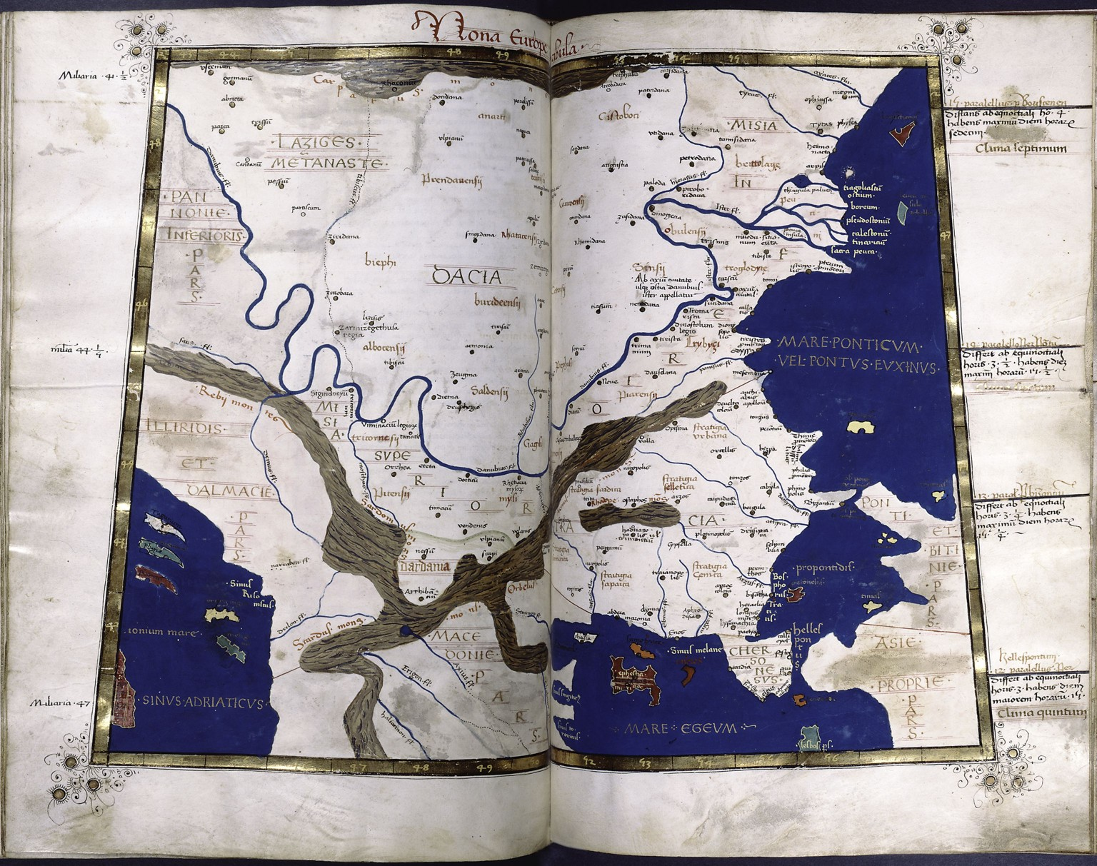 The 9th European Map (Nona Europae Tabula), depicting the Balkans, from a medieval edition of Ptolemy's Geography